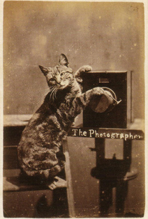 "The Photographer", a carte from 'The Brighton Cats' series, photographed by Harry Pointer at his Bloomsbury Place studio in Brighton.